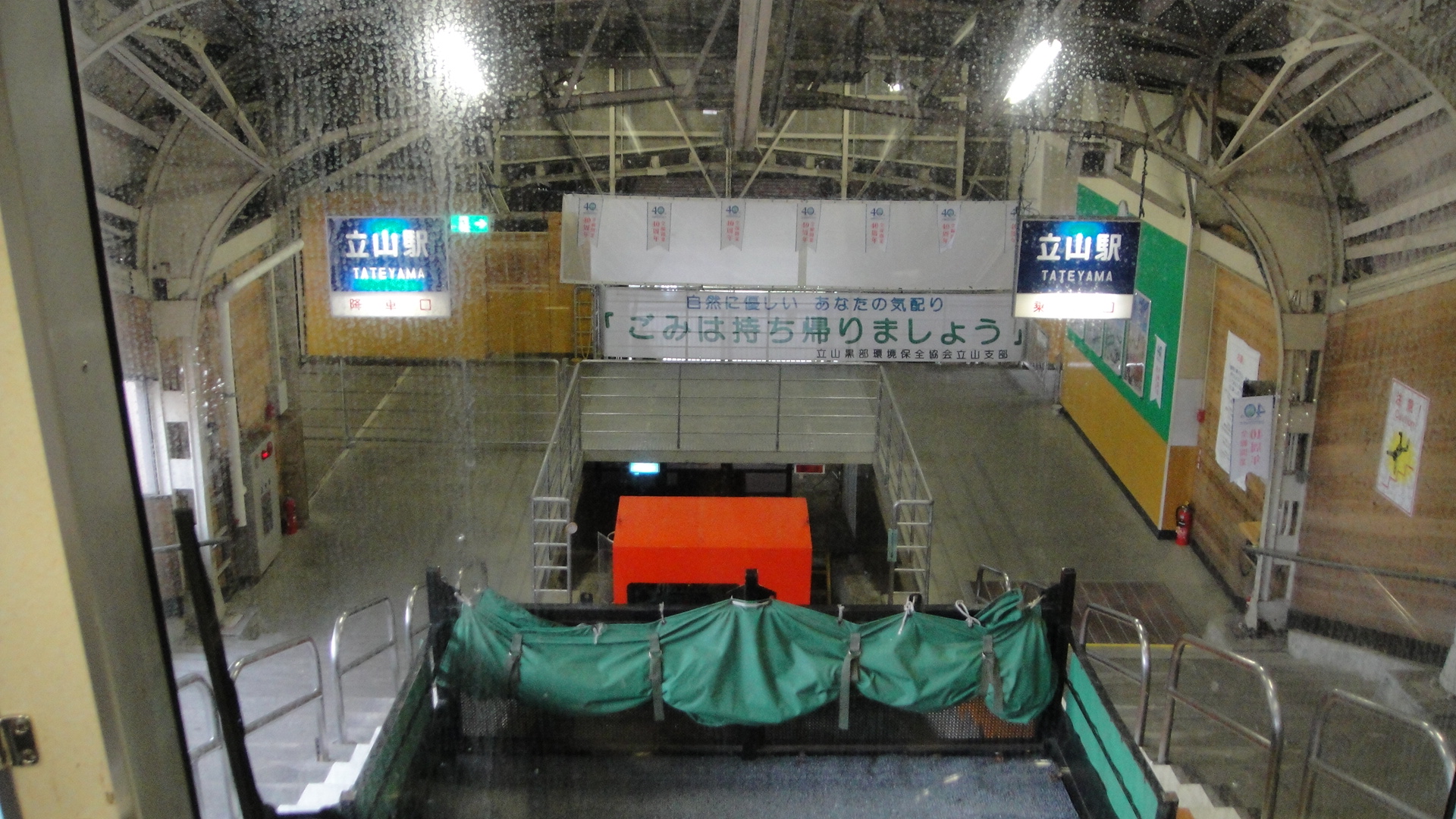 Tateyama Cable Car Tateyama Station in Toyama, Japan